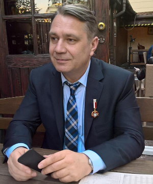 Robert F. Barkowski while awarding the medal of honour "For Merits for Polish Culture", Warsaw 2016-05-11.